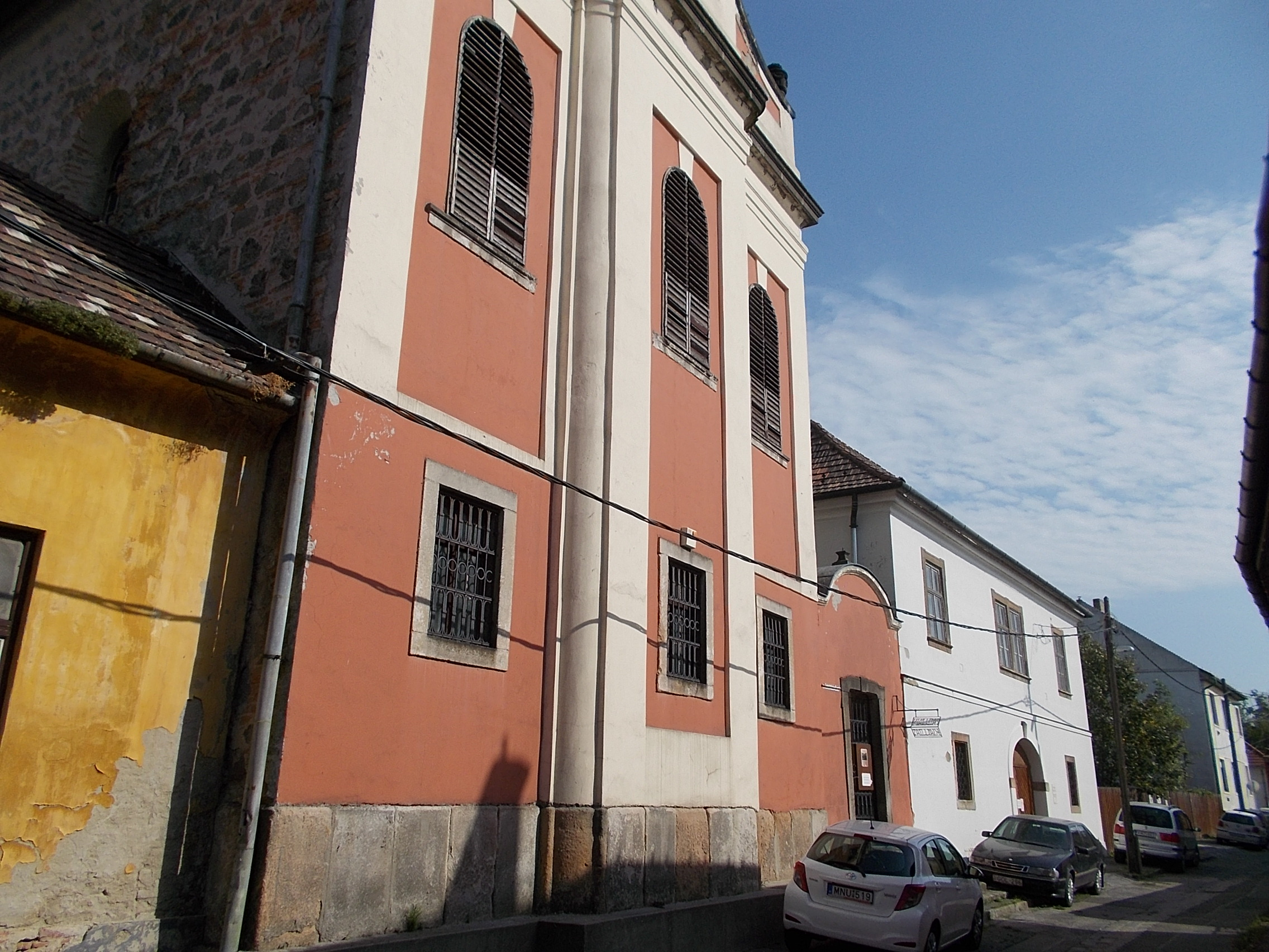 Greek Catholic church. Listed ID 7510. A Single nave Baroque church now museum. In 1792 founded, built in 1792, rebuilt in 1824. - Katona Lajos utca, Március 15. tér, Vác, Hungary